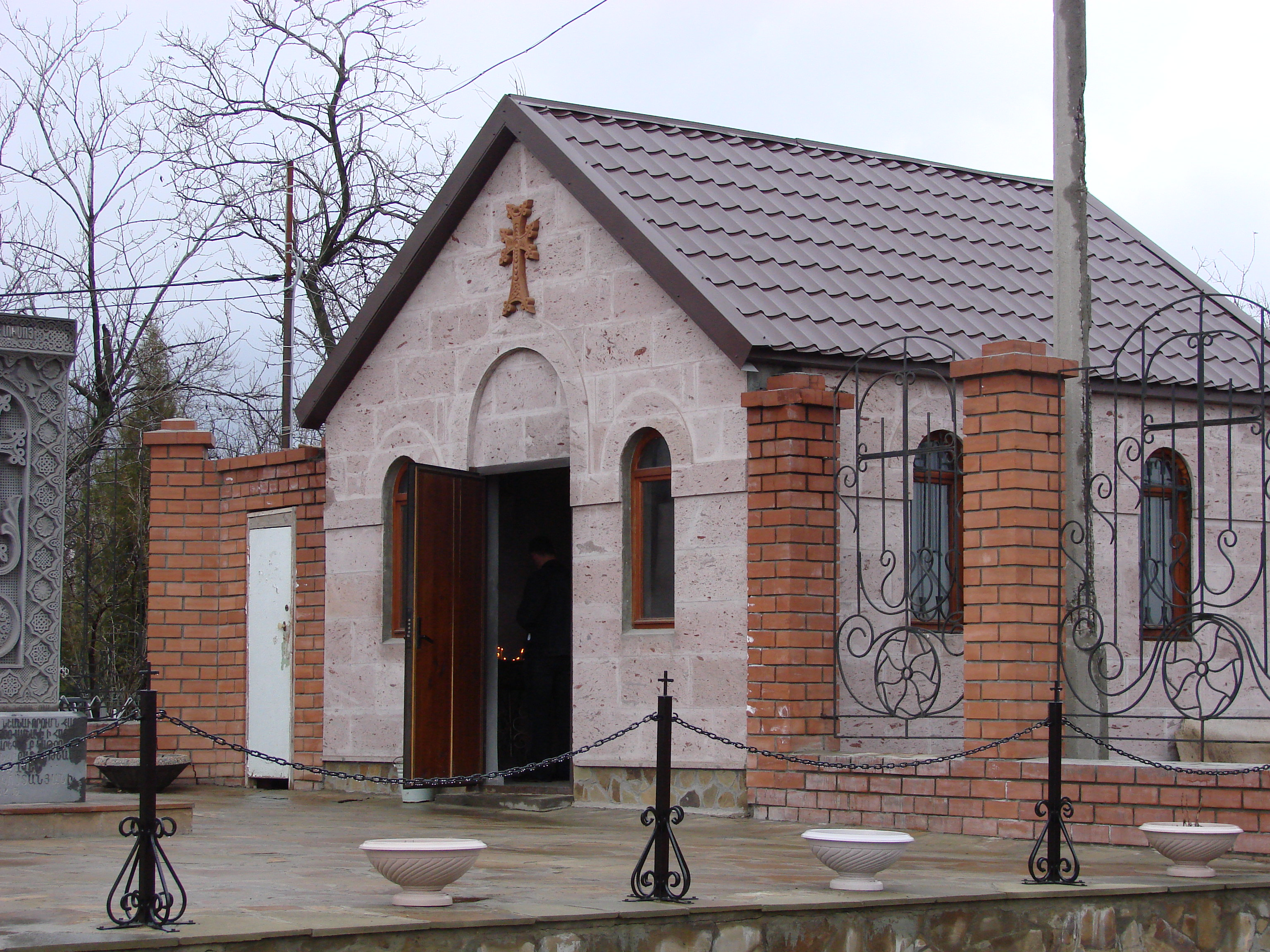 Chamber in Sourb Gevorg in Volgograd